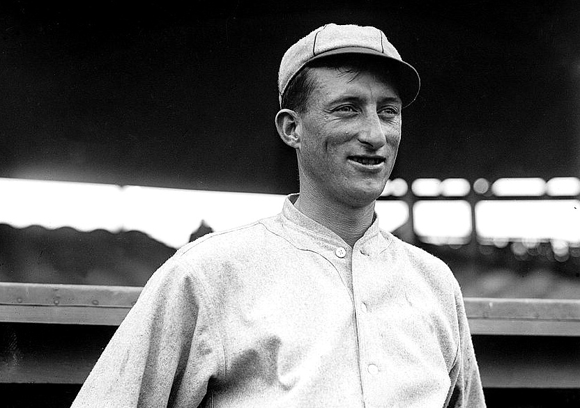 "Slim Sallee, St. Louis, NL (baseball)" A 1911 image, from the Bain News Service, of Slim Sallee, a baseball player.